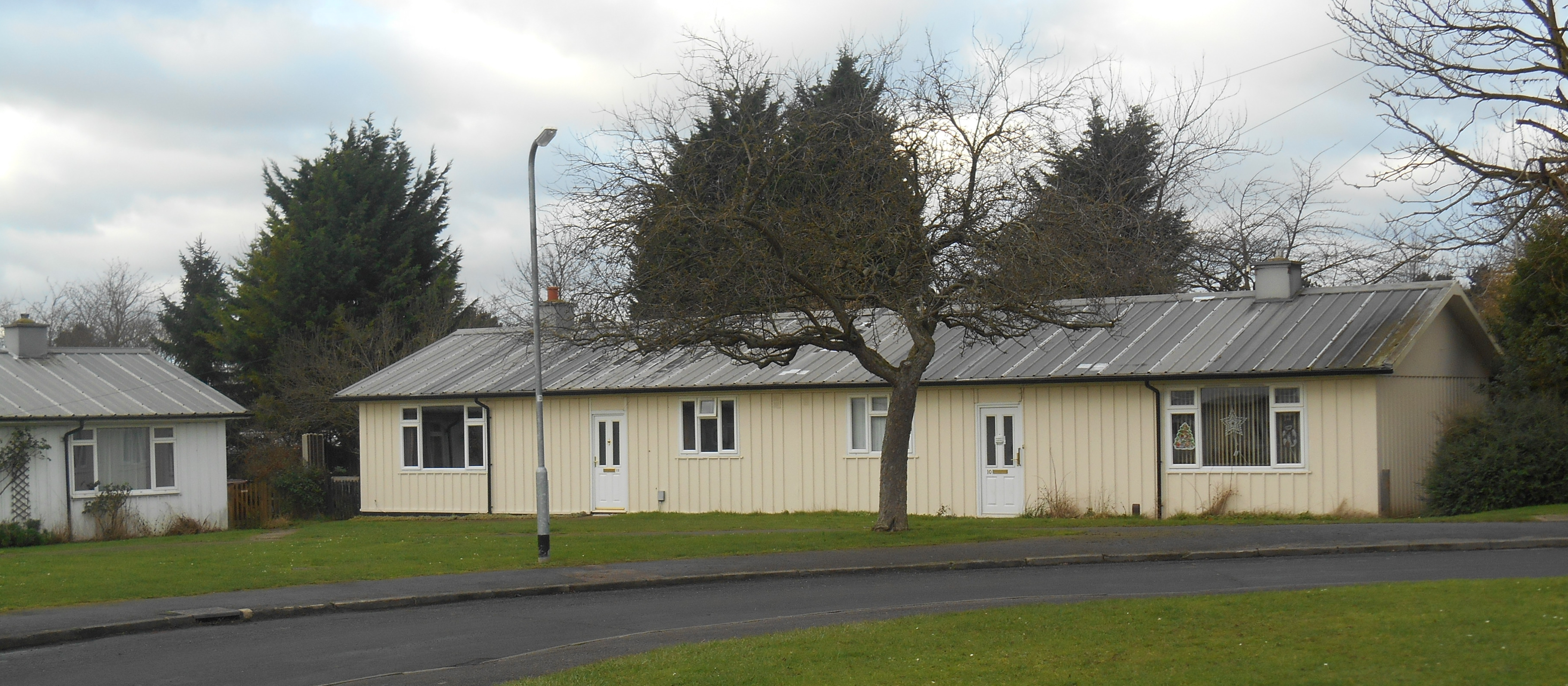 One of a series of 4 photos (titles Letchworth Prefabs 1, 2, 3, 4) showing some of the sixty-odd prefabricated houses build 1950-51 in the Wilbury Hills area of Letchworth Garden City. I believe these are acceptable on grounds of privacy as they contain no particular identifying information (beyond what e.g. Google StreetView would show - no house numbers, number plates, people, etc.